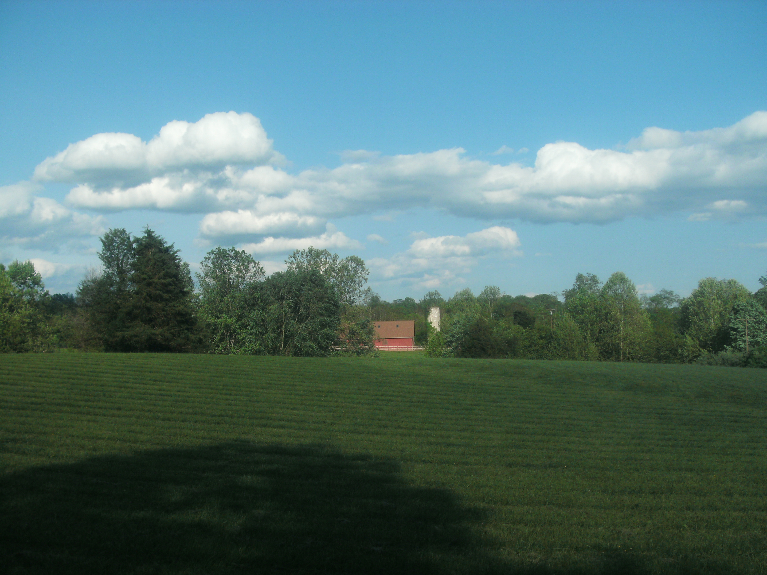 Locust Grove, Rapahannock County, Virginia.